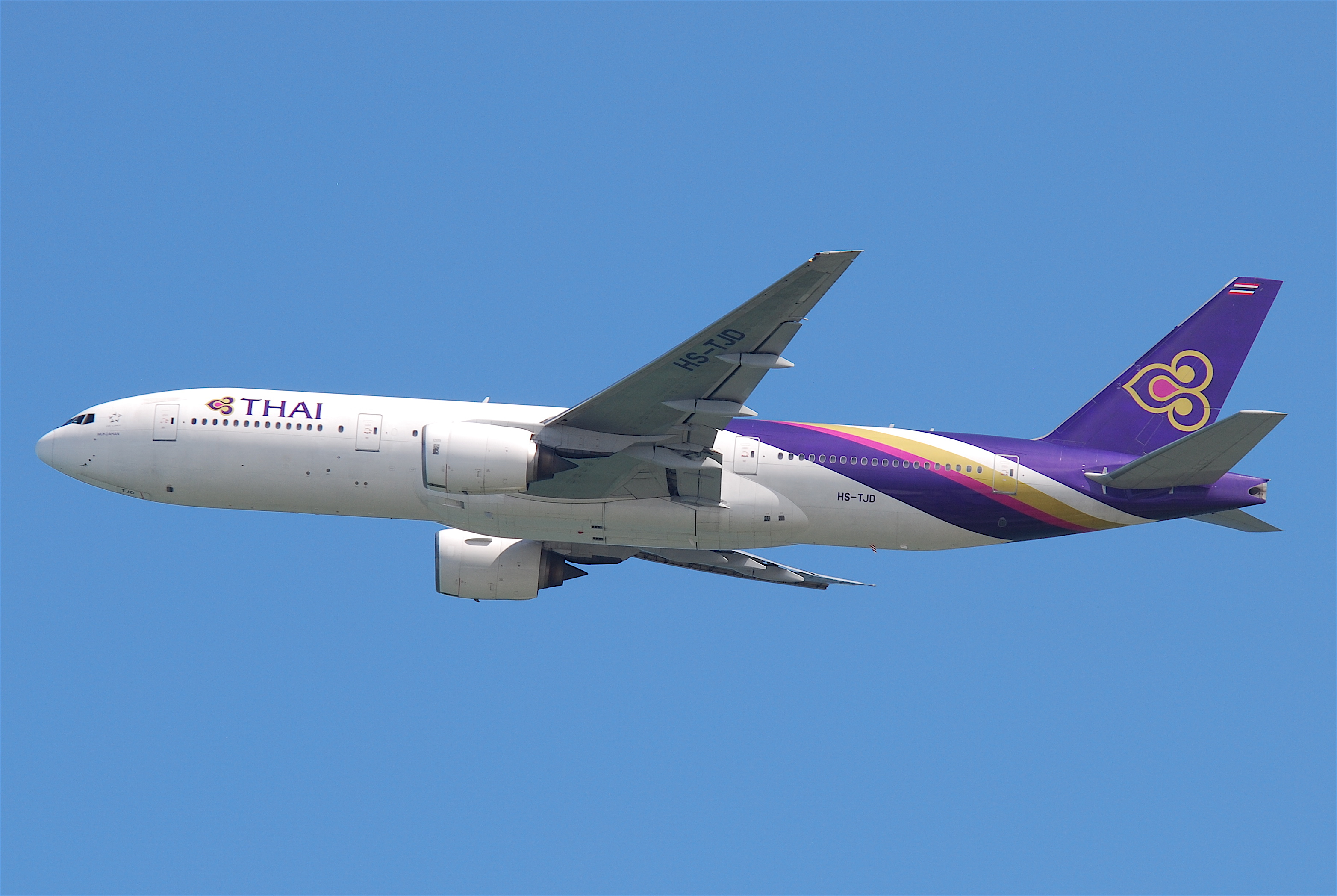 This Boeing 777-2D7 took its first flight on December 10, 1996...(c/n 27729/ 51)